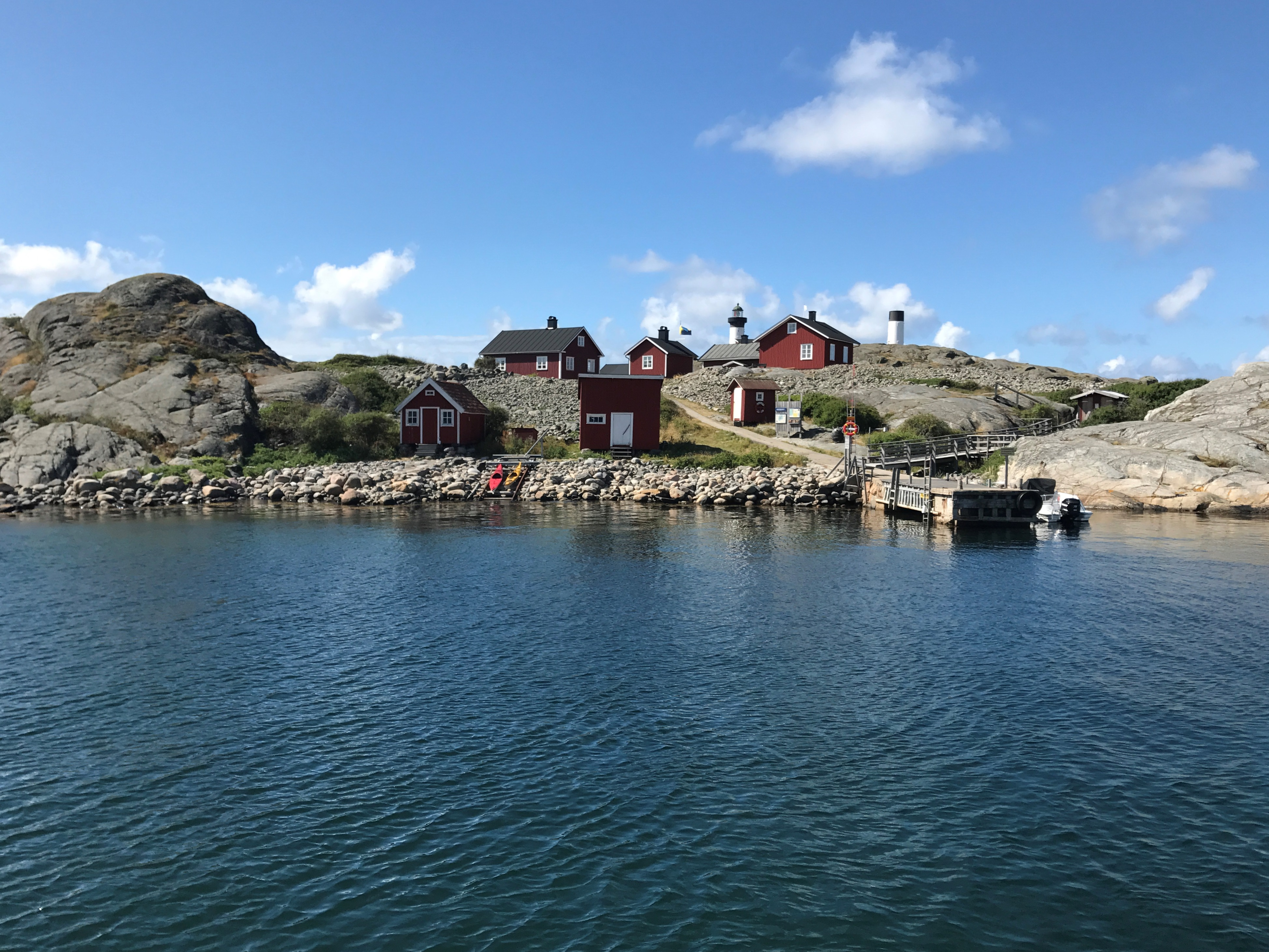 Ursholmen, western island, from northeast. The lighthouse, former lighthouse and the houses where the lighthouse keepers used to live.